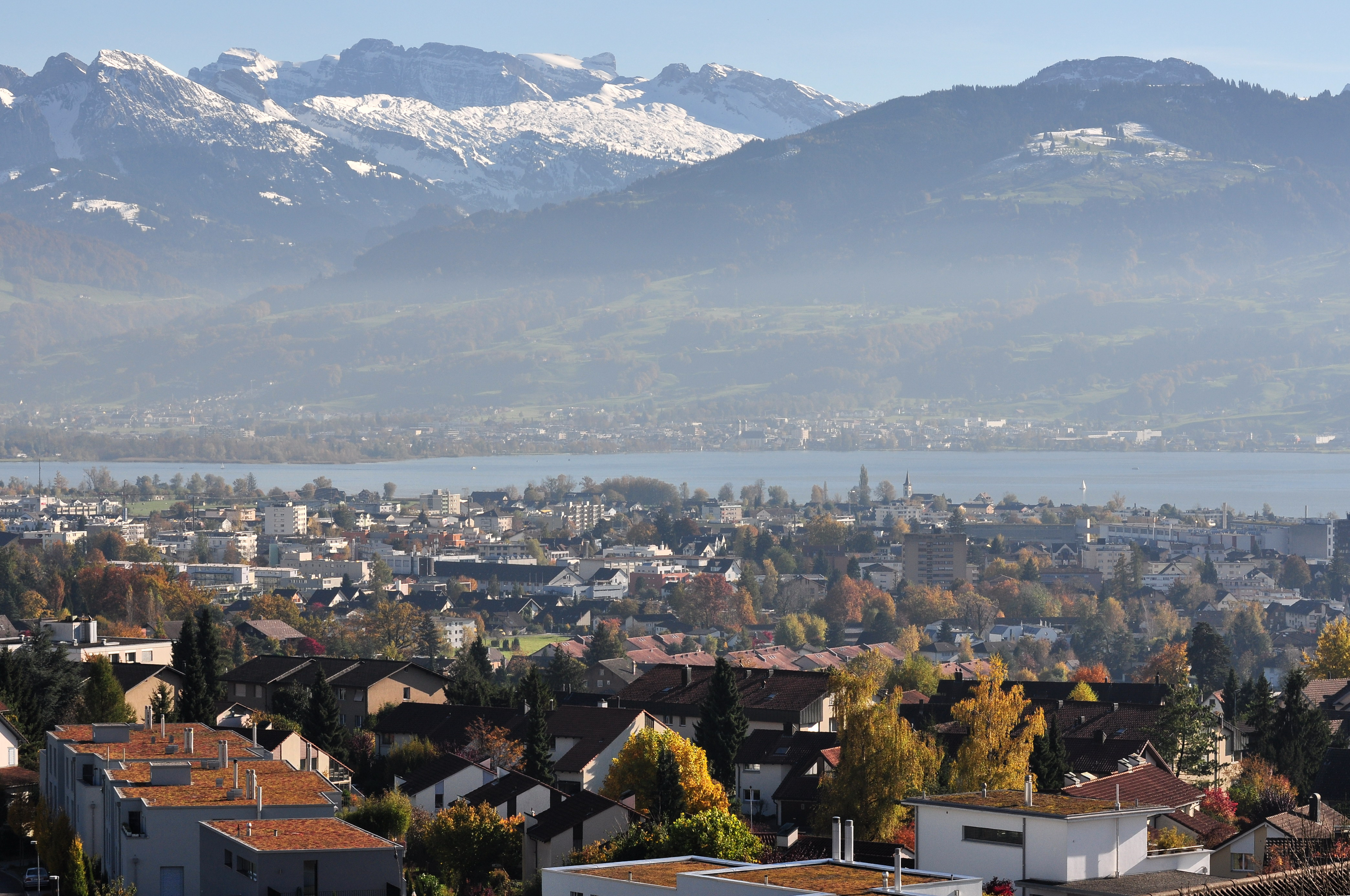 Rapperswil-Jona (Switzerland), as seen from Kempraten-Lenggis, Jona to the left, Rapperswil to the right, Obersee (upper Lake Zürich) and Lachen in the background.